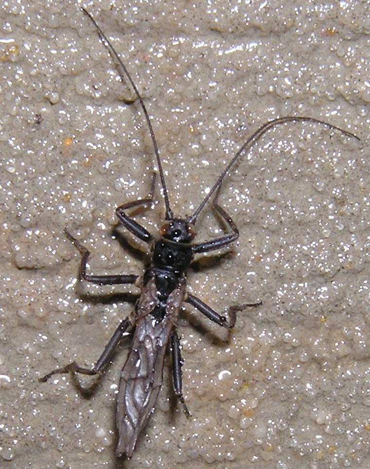 Oemopteryx glacialis male. WI: Clark Co., Black River, 3/2011.